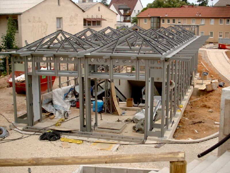 construction works at the underground station "Fürth Klinikum", Fürth, Germany